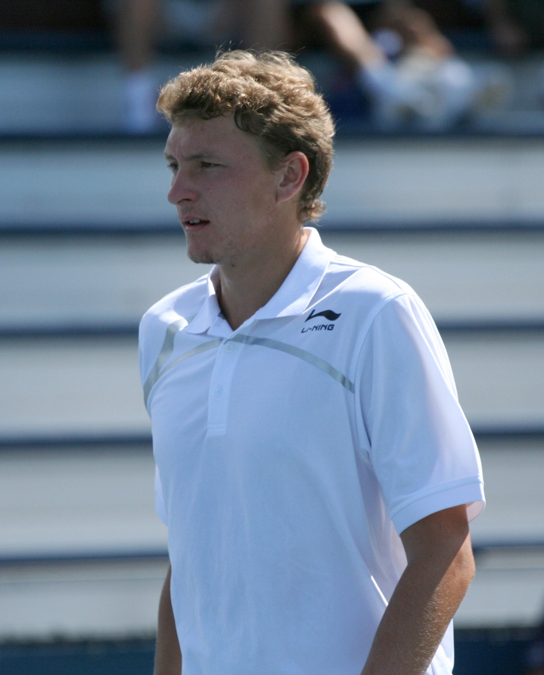 U.S. Open Thursday, Sept. 3